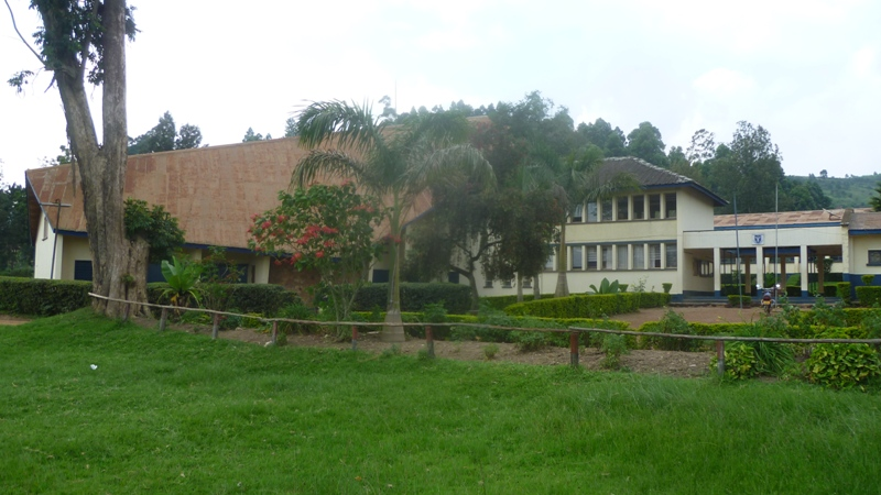 Kennedy Hall and part of the Kigezi College Butobere (SINIYA) Administration Block